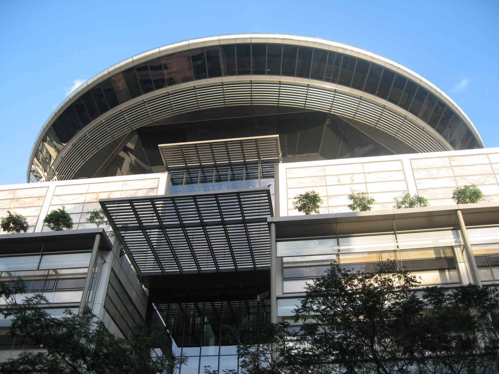 Supreme Court Building — Singapore. Taken by Terence Ong in March 2006.